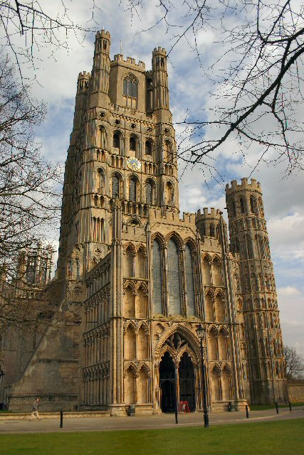 Ely Cathedral West Front. Built in the 12th and 13th centuries.